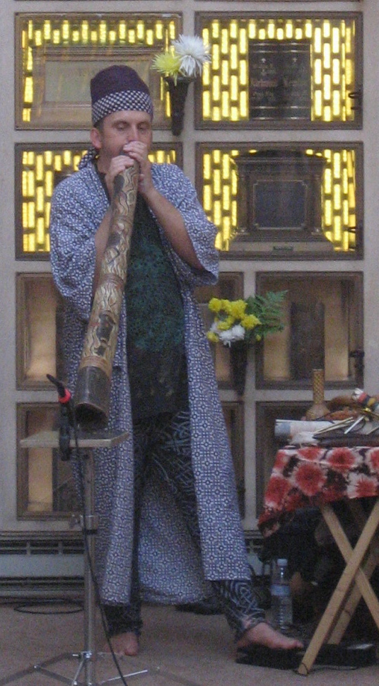 Stephen Kent at Chapel of the Chimes (cropped)